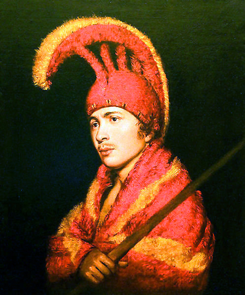 Man Wearing Feather Cloak and Helmit, oil on canvas painting attributed to Rembrandt Peale, c. 1805-1810, Bernice P. Bishop Museum